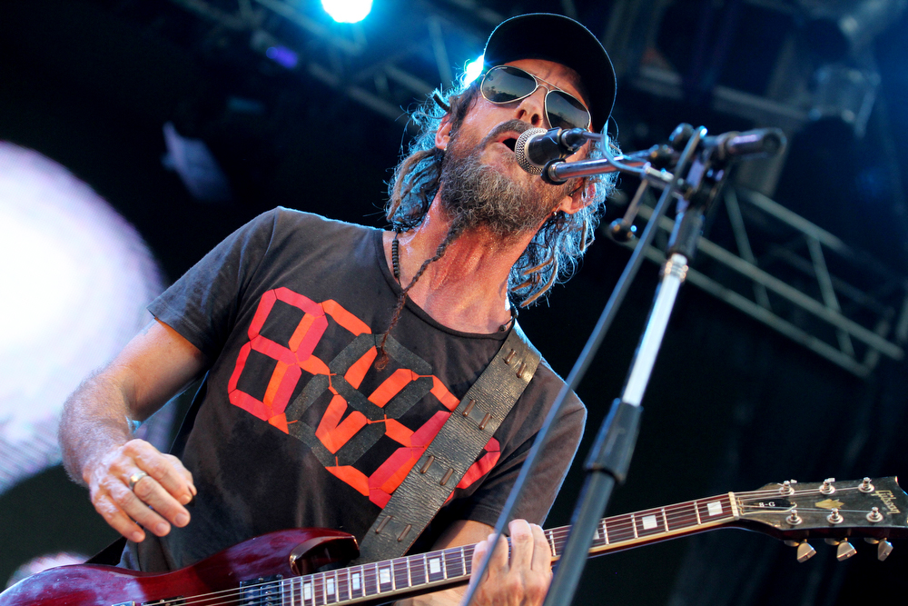 Ezeiza, 22 de febrero de 2015En el marco de la campaña "Verano de emociones", organizada por Presidencia de la Nación en conjunto con el Ministerio de Cultura de la Nación se presentaron en Ezeiza: "Así no más", "Nova", "La voz del barro", "Obreros de la negra", "Entrance", "La K-ra de Juan", "Elisdid", bandas del concurso Maravillosa Música lanzado por el Ministerio de Cultura de la Nación.Para el cierre, subieron al escenario "Vetamadre" y después La Mancha de Rolando.